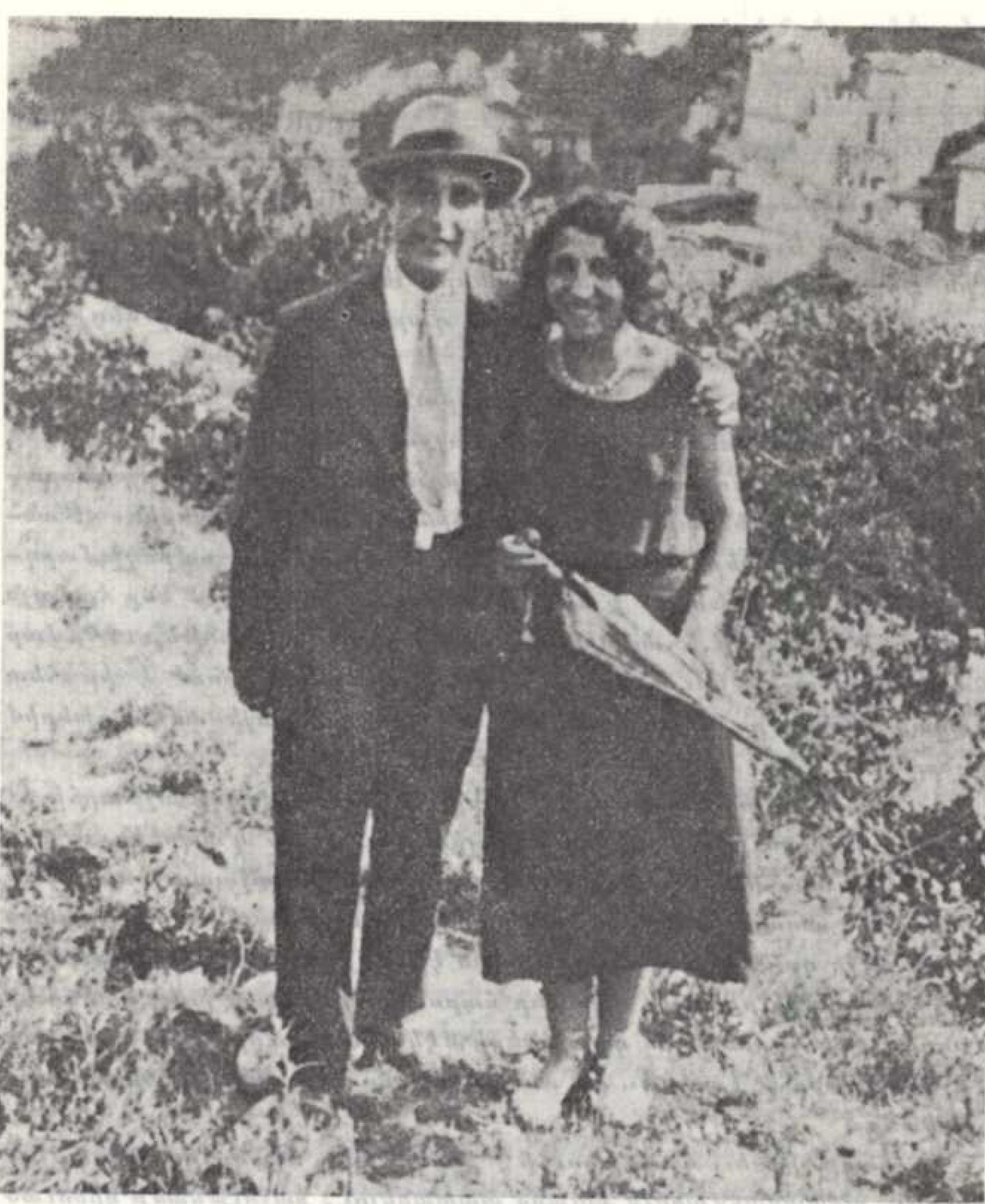 Louisa and Arpiar Aslanians